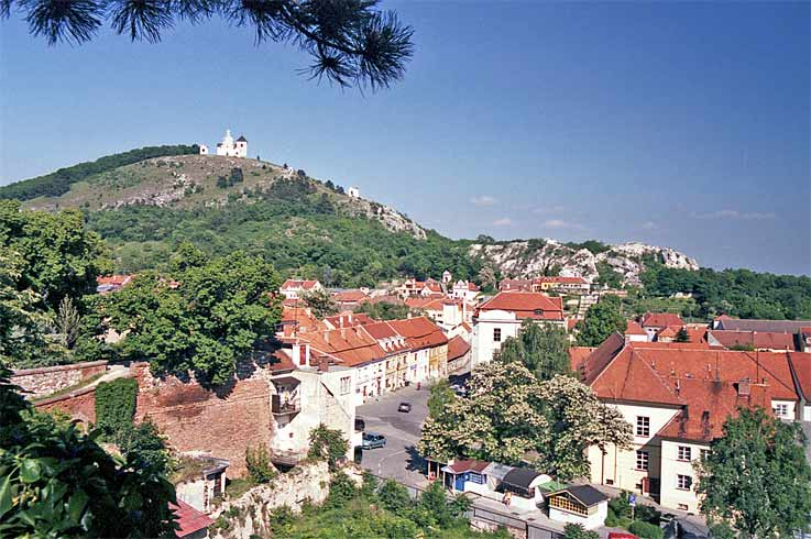 Photo of the Holy Hill (Svatý kopeček) over Mikulov